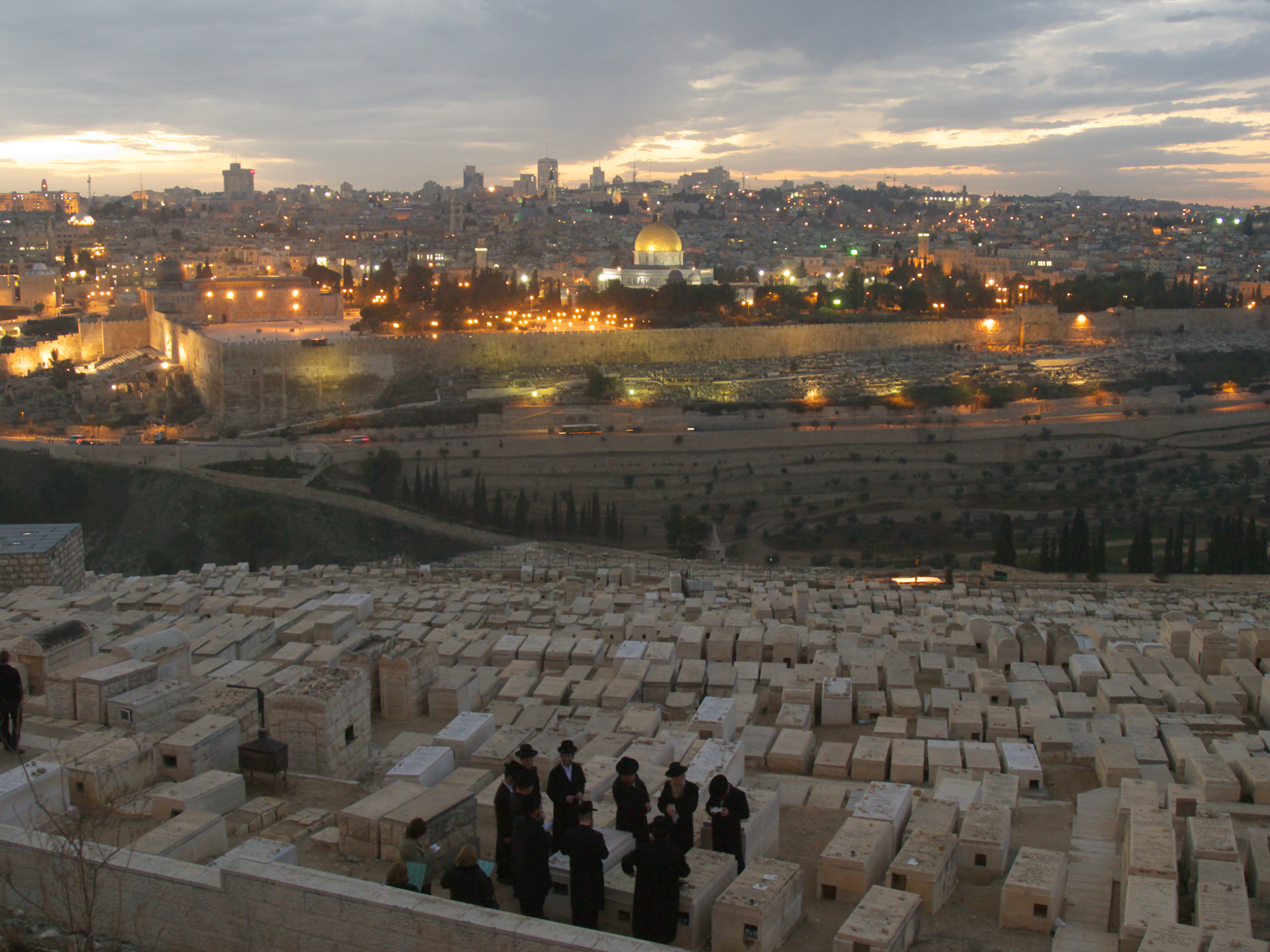 Kaddisch in Jerusalem at a grave.